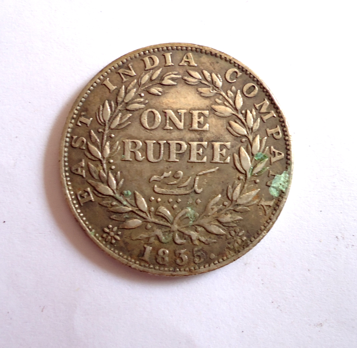 One Rupee published by East India Company in 1835